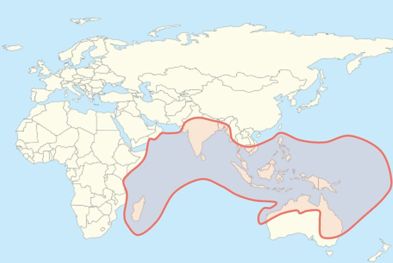 Worldwide range of flying foxes based on "Emerging and Reemerging Infectious Diseases" (2002)